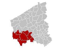 Location of Arrondissement Ieper in Belgium.